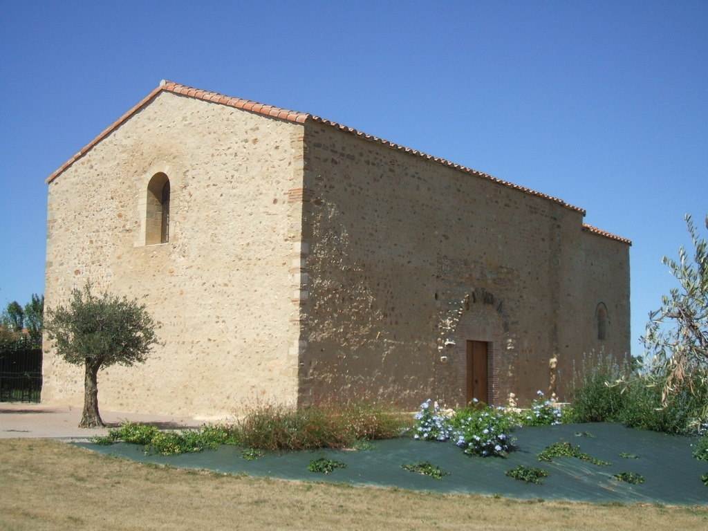 Villeneuve-de-la-Raho (département of Pyrénées-Orientales, Languedoc-Roussillon région, France) : Saint-Julien and Sainte-Basilisse chapel (XIIth century), former church of the village.